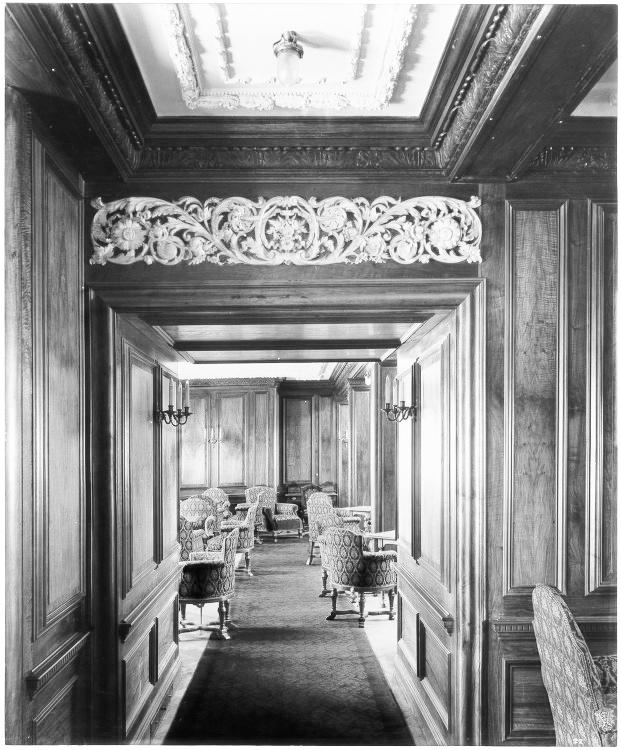 1st class Smoking room